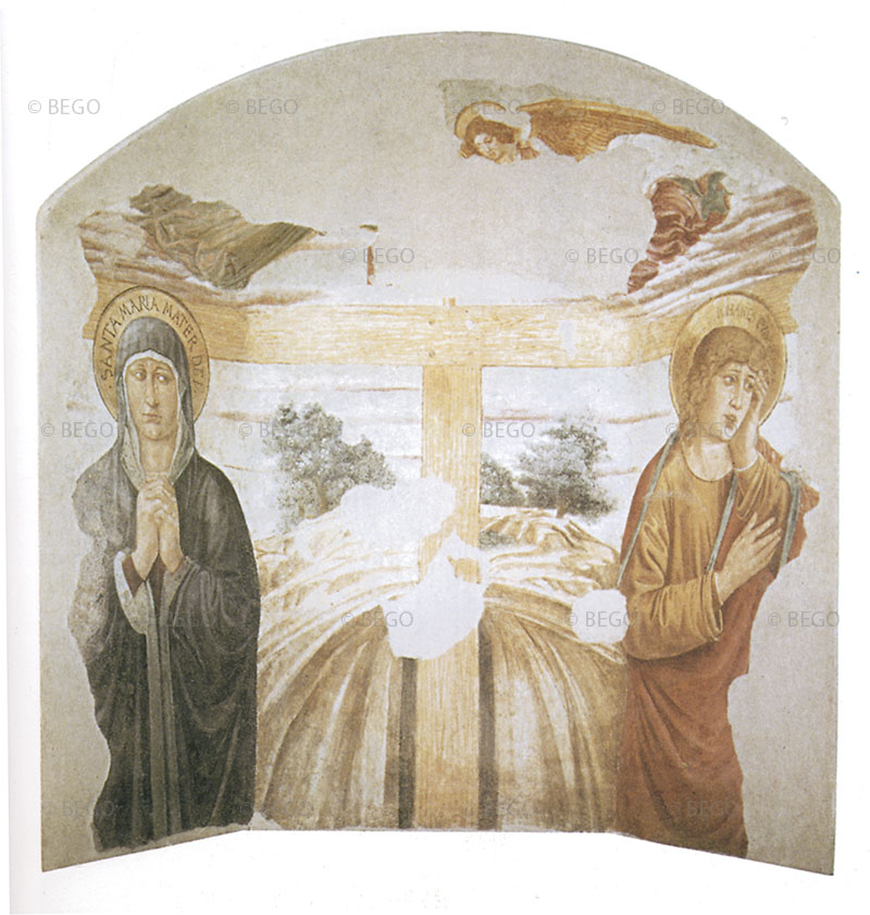 Benozzo Gozzoli